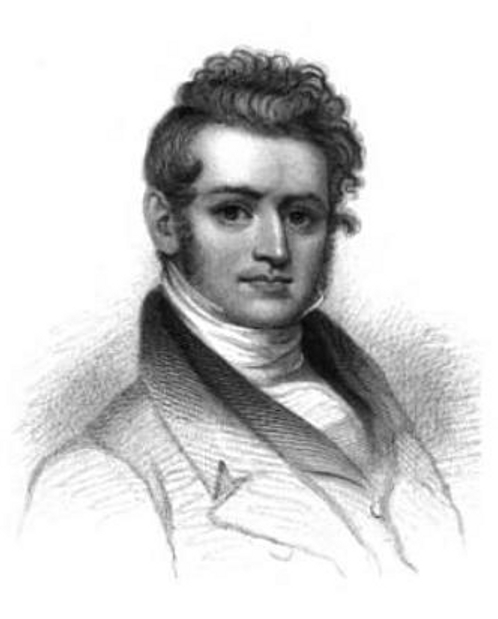 Image of American poet Joseph Rodman Drake. From The Croakers by Joseph Rodman Drake and Fitz-Greene Halleck, published by The Bradford Club, 1860.